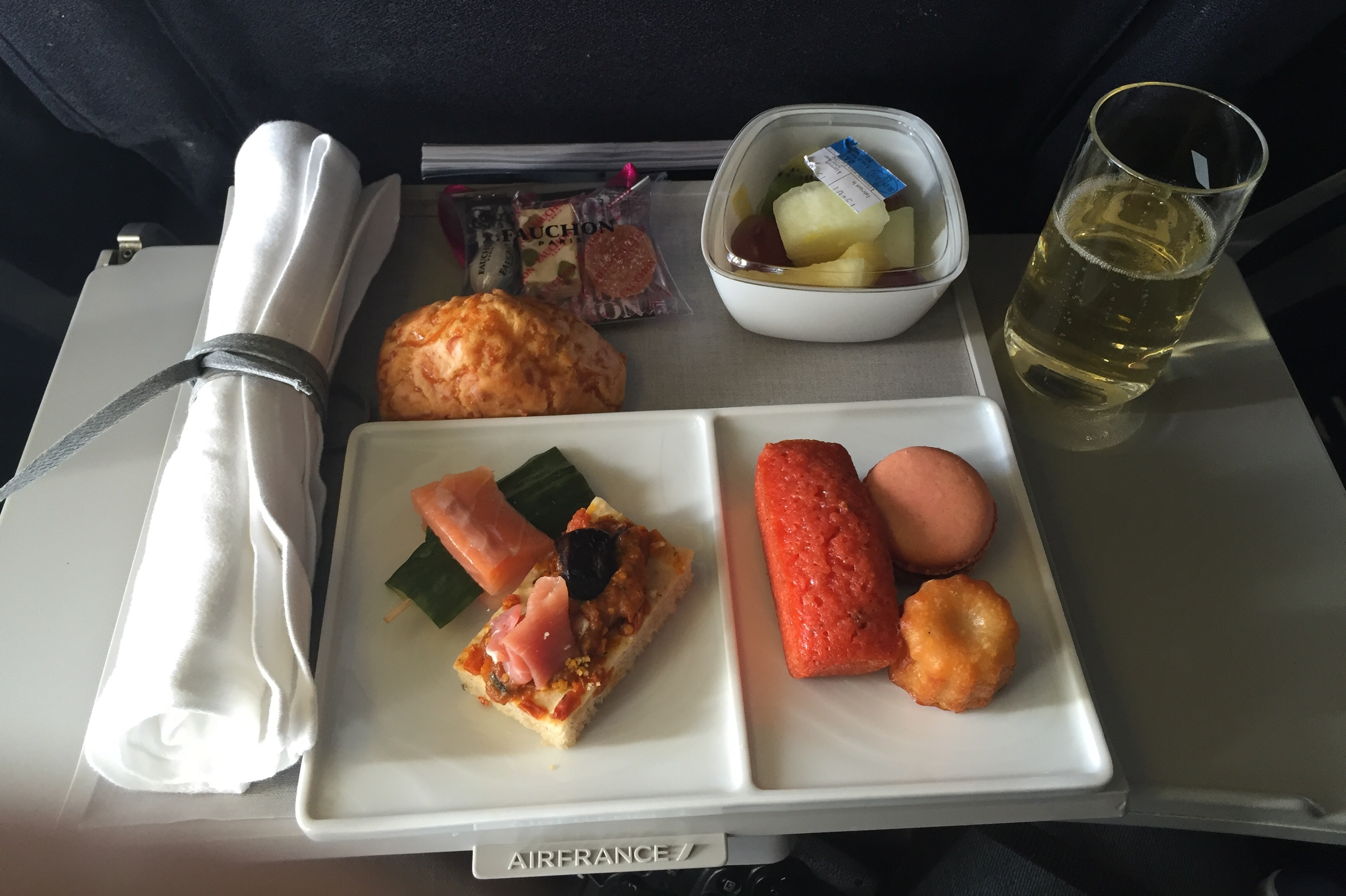 To day 01/14/2016, two last flights of 747 AF, AF744 with F-GITJ, and AF747 with F-GITE. I was in the first MSN 32871 LN 1343 B747-428 / 747 / 747-400 AIR FRANCE CDG AIRPORT TWO TIMES IN THIS PLANE, TODAY and CDG-ATL IN 2010